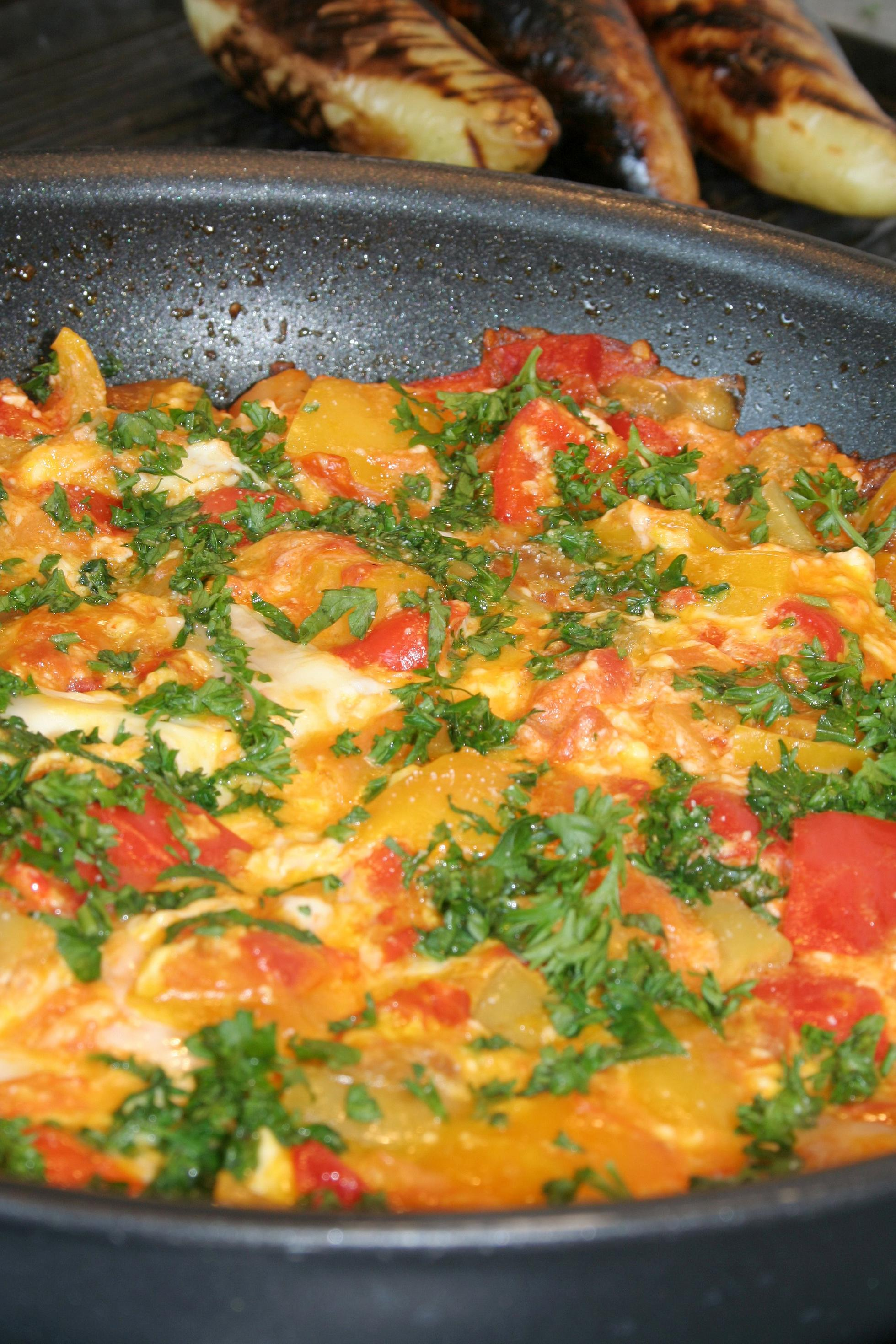 Mish-mach - a vegetarian Bulgarian dish